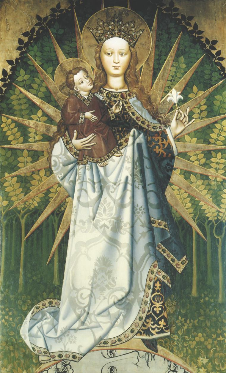 Madonna with Child Clothed in Sunlight. Polish Painting Masterpieces. Parich church in Przydonica